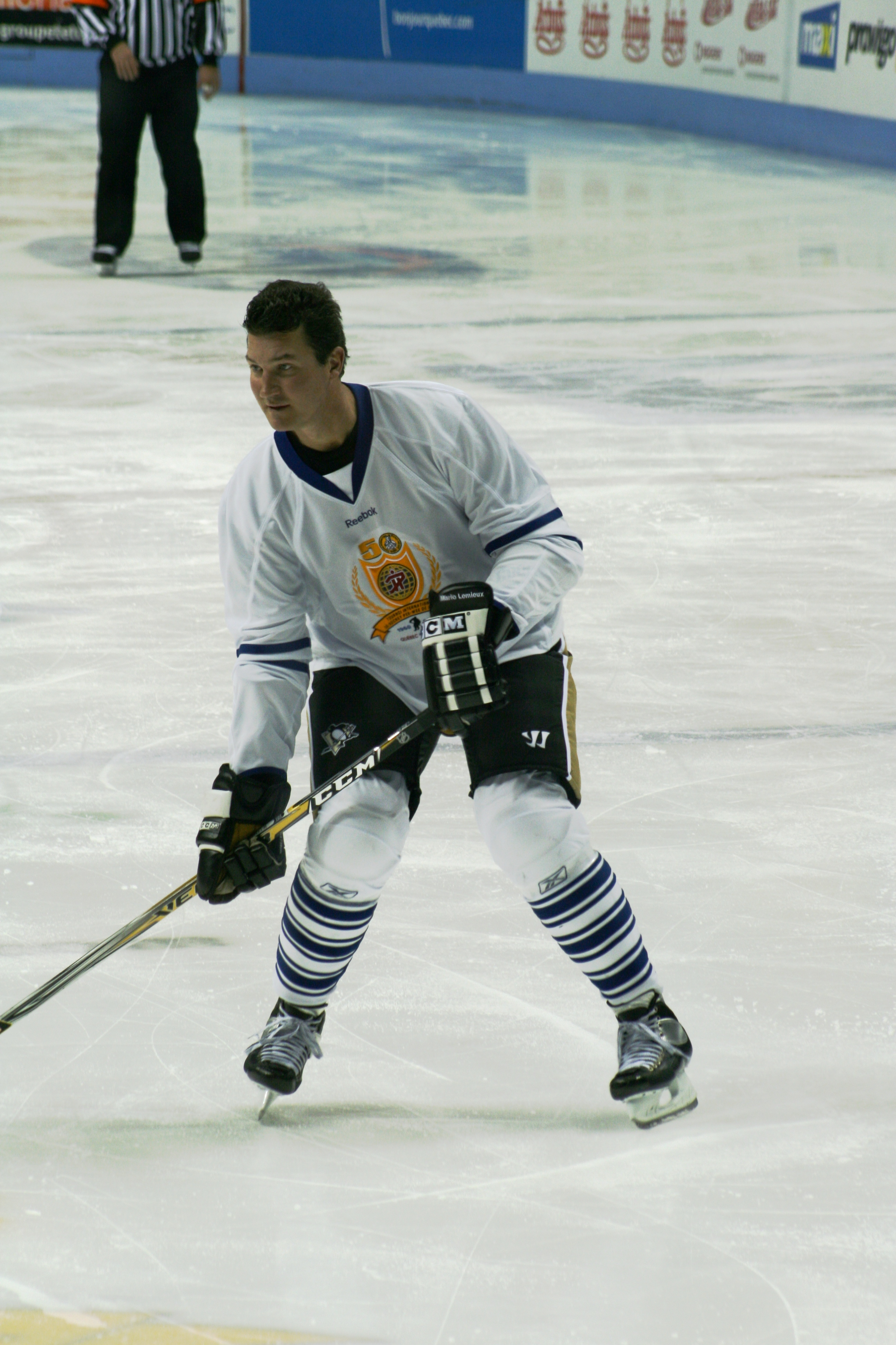 Mario Lemieux playing at the Legends Games for the 50th edition of the Quebec International Pee-Wee Tournament.